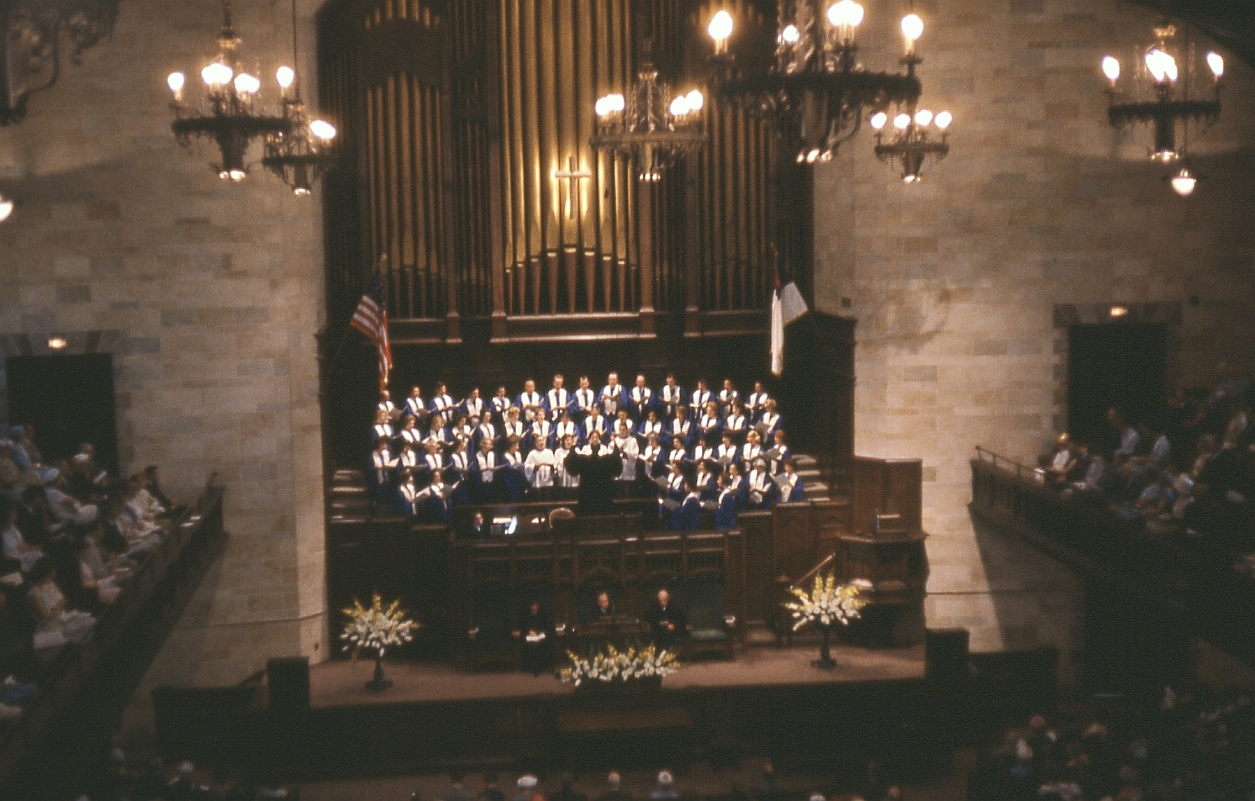 The choir performing during a Sunday service, at the First Presbyterian Church of Hollywood, California. Taken with a 35mm Exakta VX, using Ektachrome slide film.